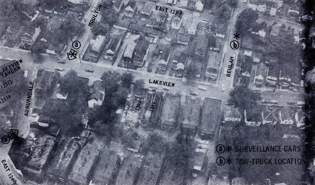 Aerial photograph of the area in the Glenville neighborhood of Cleveland, Ohio, U.S., where the "Glenville shootout" occurred on July 23-24, 1968.